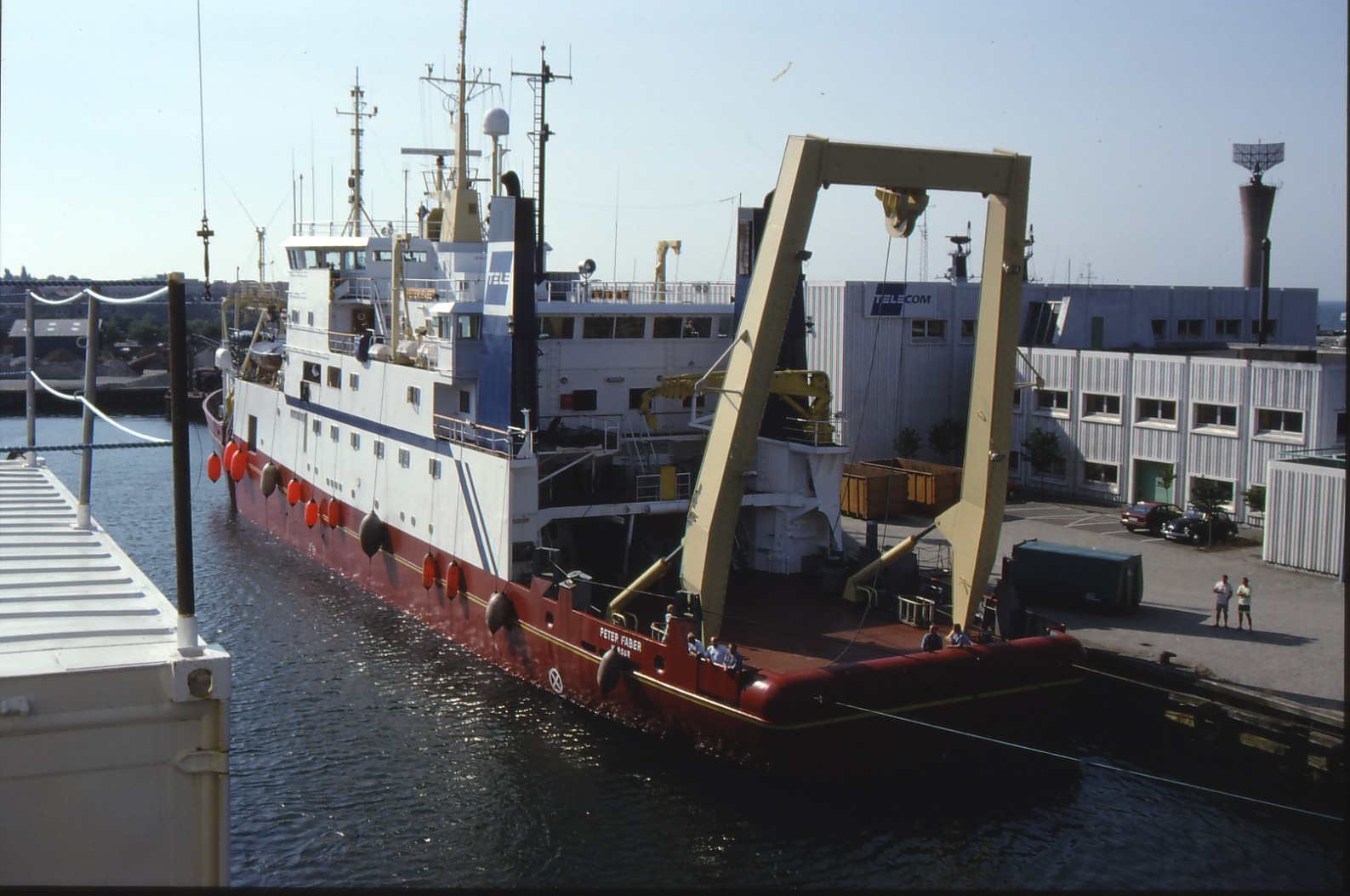 Peter Faber in her original colours circa 1992 IMO Number: 8027781 MMSI Number: 219100000 Callsign: OZPK2 Length: 78 m Beam: 14 m